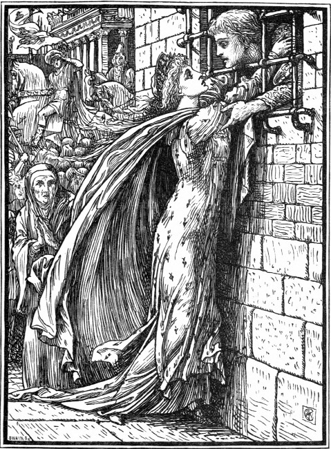 Illustration by Walter Crane for Mary de Morgan's fairytale, "The Heart of Princess Joan." Originally a caption beneath the illustration read: "—and ere they could stop her she had turned her palfrey's head towards the prison window, and pushed her white arms through the bars to clasp the Prince."—P. 128.